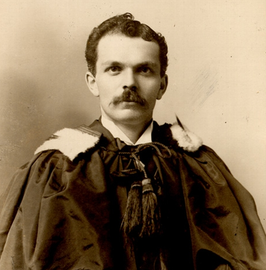 Adjutor Rivard, (1868-1945) is a lawyer, writer, judge and linguist from Quebec, Canada. Professor at Université Laval, he founds with his colleague Stanislas-Alfred Lortie, on 18 february 1902, the Société du parler français au Canada.